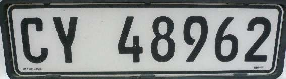 licence plate Cape Province (old version), ZA